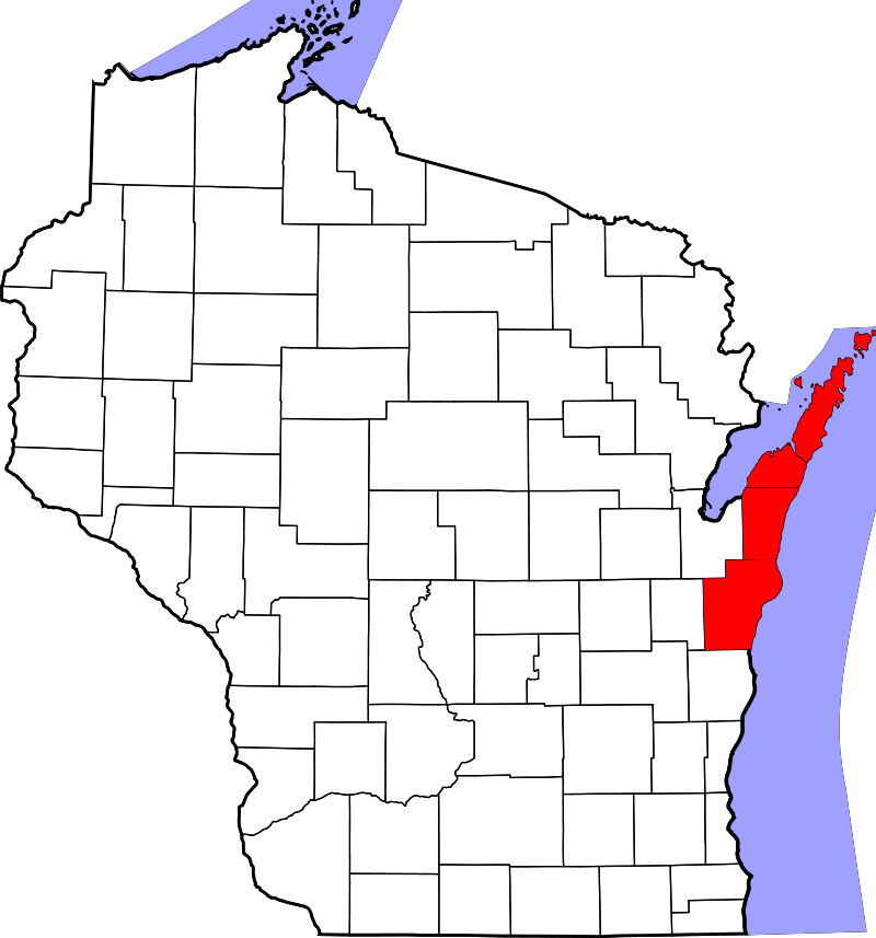 Wisconsin Senate District 1 boundaries as of 1877 redistricting, composed of Door, Kewaunee, and Manitowoc counties